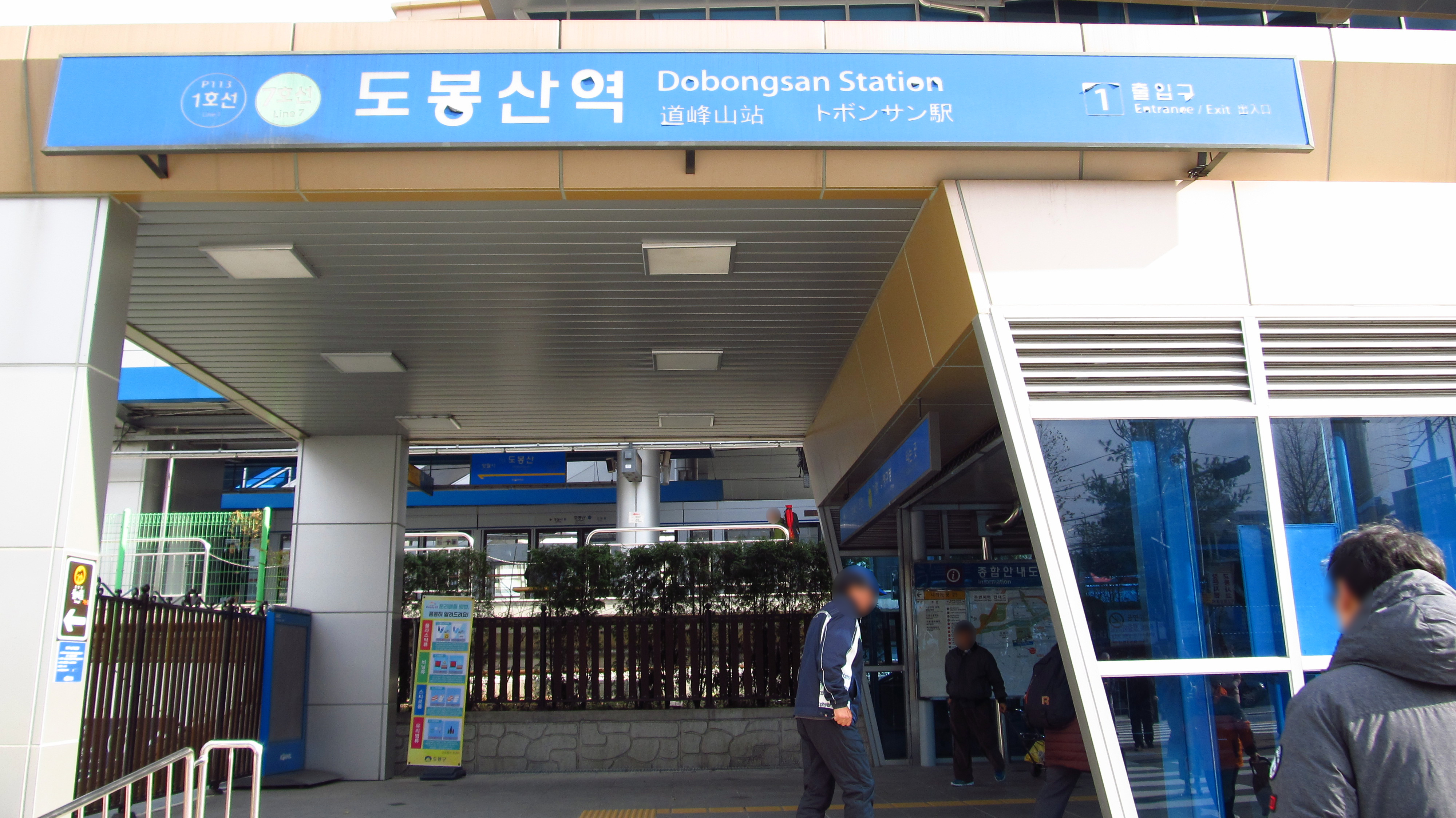 The no.1 entrance to Dobongsan Station on Seoul Subway Line 1 in Dobong-gu, Seoul, Republic of Korea(South Korea)